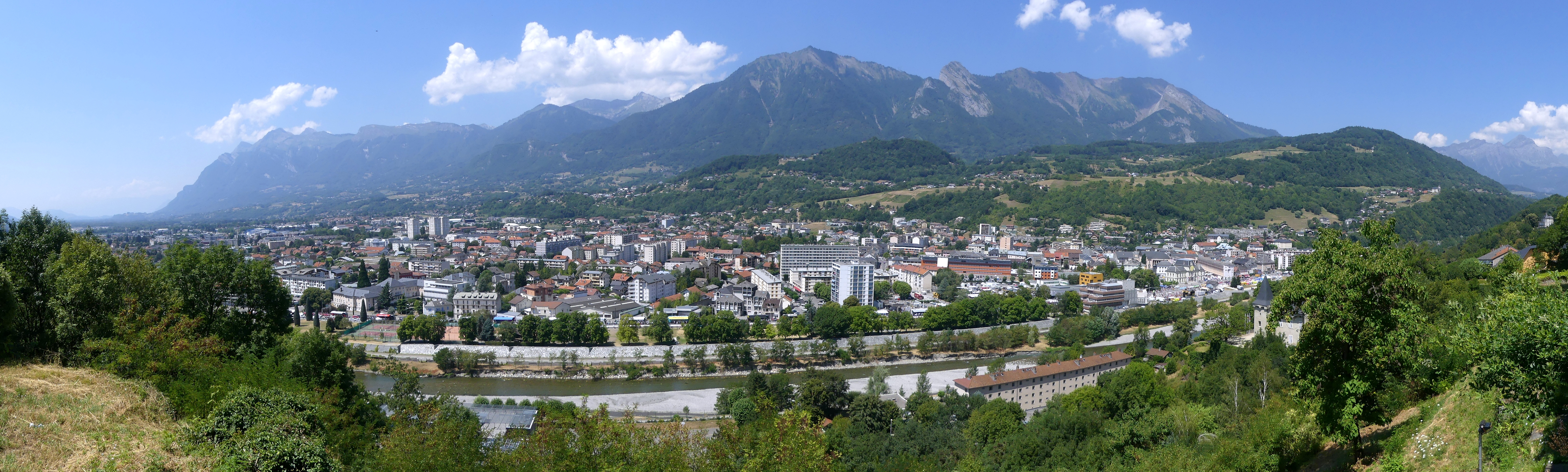 Panoramic sight, from the belvedere of Conflans medieval village, of Albertville, Savoie, France. At the foregrund can be seen the Arly river